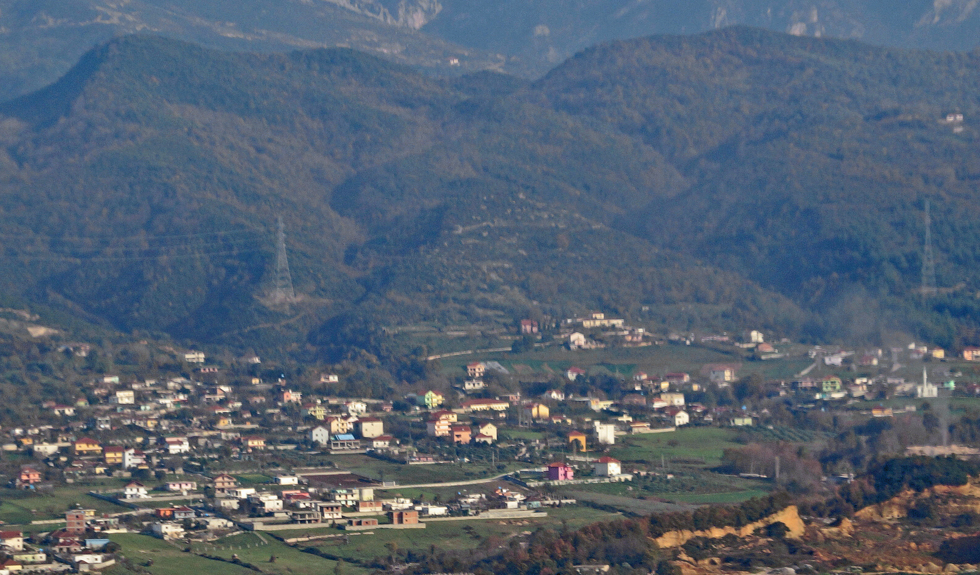 Parts of the village of Halili and Zgërdhesh near Kruja, Albania, seen from the air